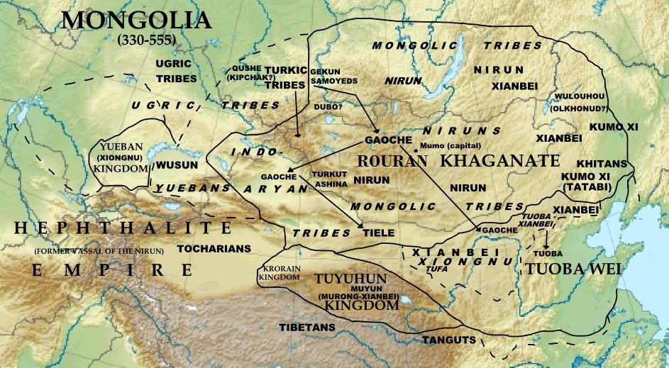 based on File:Asia laea relief location map.jpg. Data source: partially based on "Mongolian National Atlas" (2009)